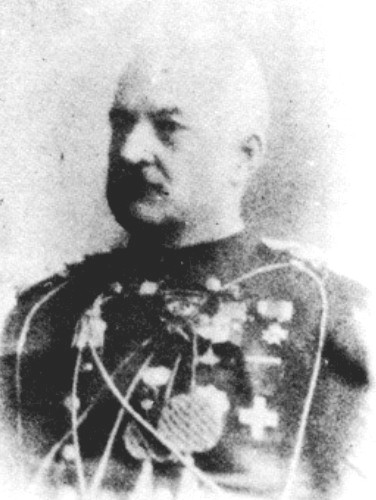 Brevet Brigadier General Edward Williston, USA